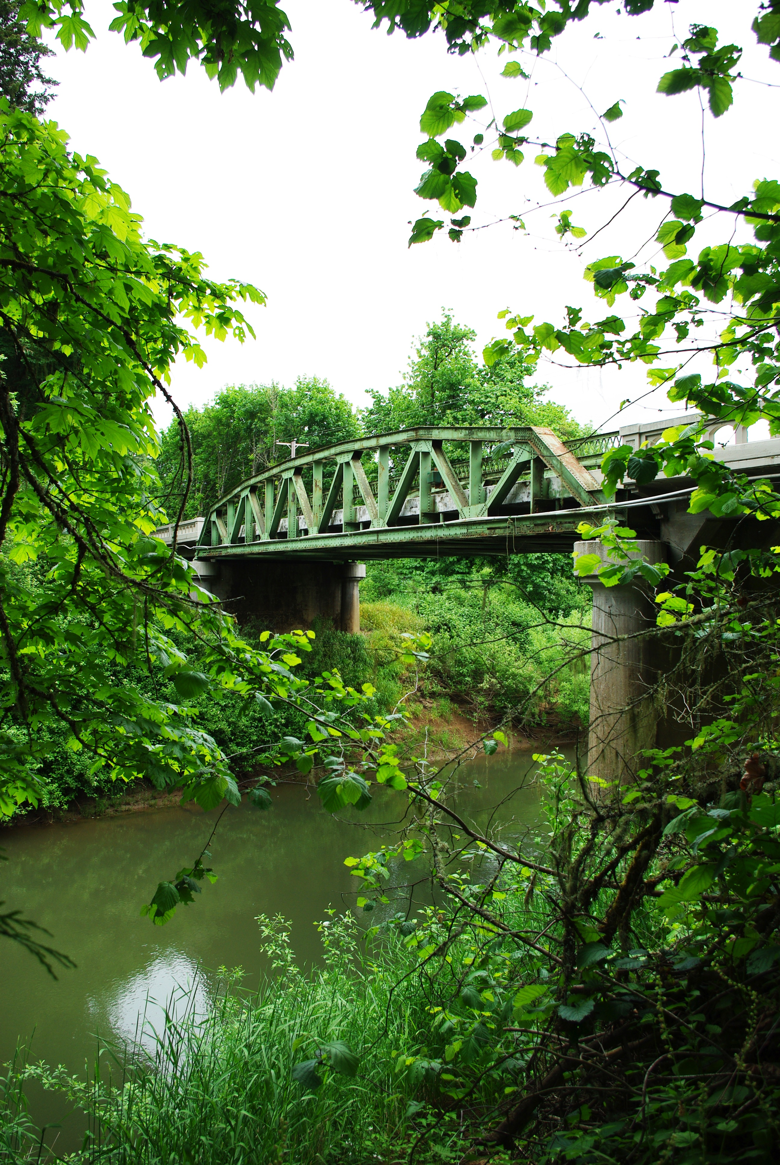 Bridge Polk County, Oregon